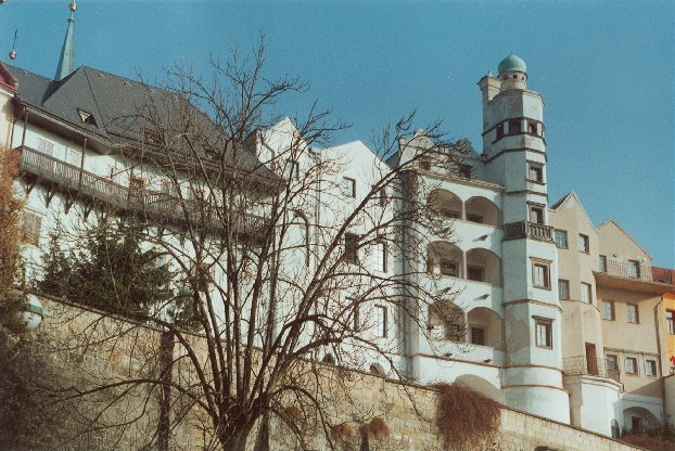 The Renaissance (1570s) Mydlářs House above town walls in Chrudim, Czech Republic.